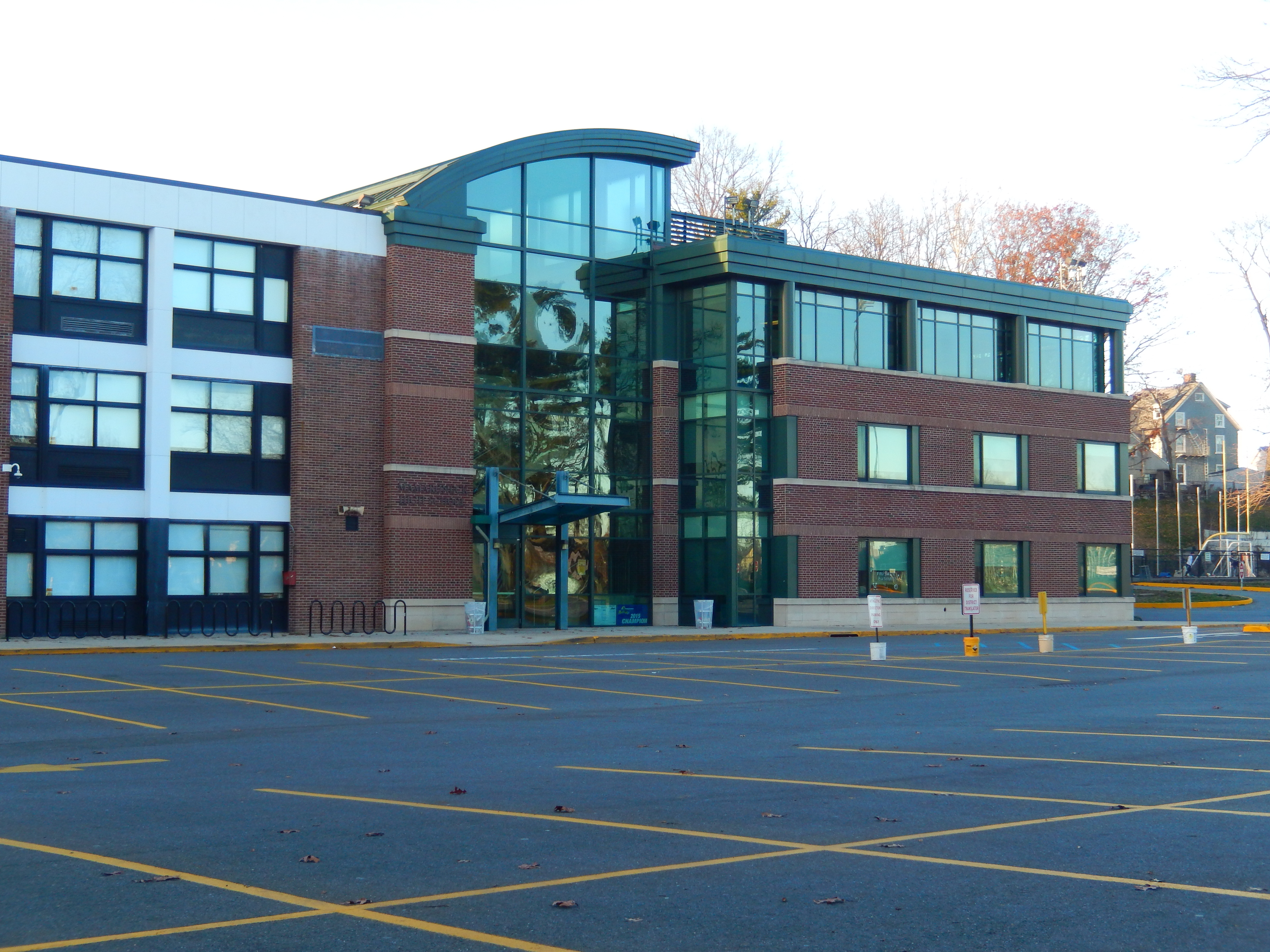 Mamaroneck High School, Auditorium Building, Boston Post Road, Mamaroneck, NY. Built in 2005, the 28,000 square-foot three-story addition cost $15.8 million to design and construct. It was designed by Brian Snyder, AIA, of The Geddis Partnership, Southport, CT.